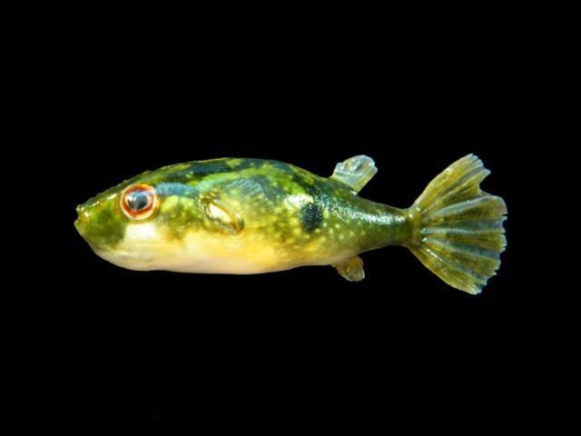 Tetraodon cutcutia, Thailand, Ranong province, south Thailand 41.0mSL, by Sahat Ratmuangkhwang